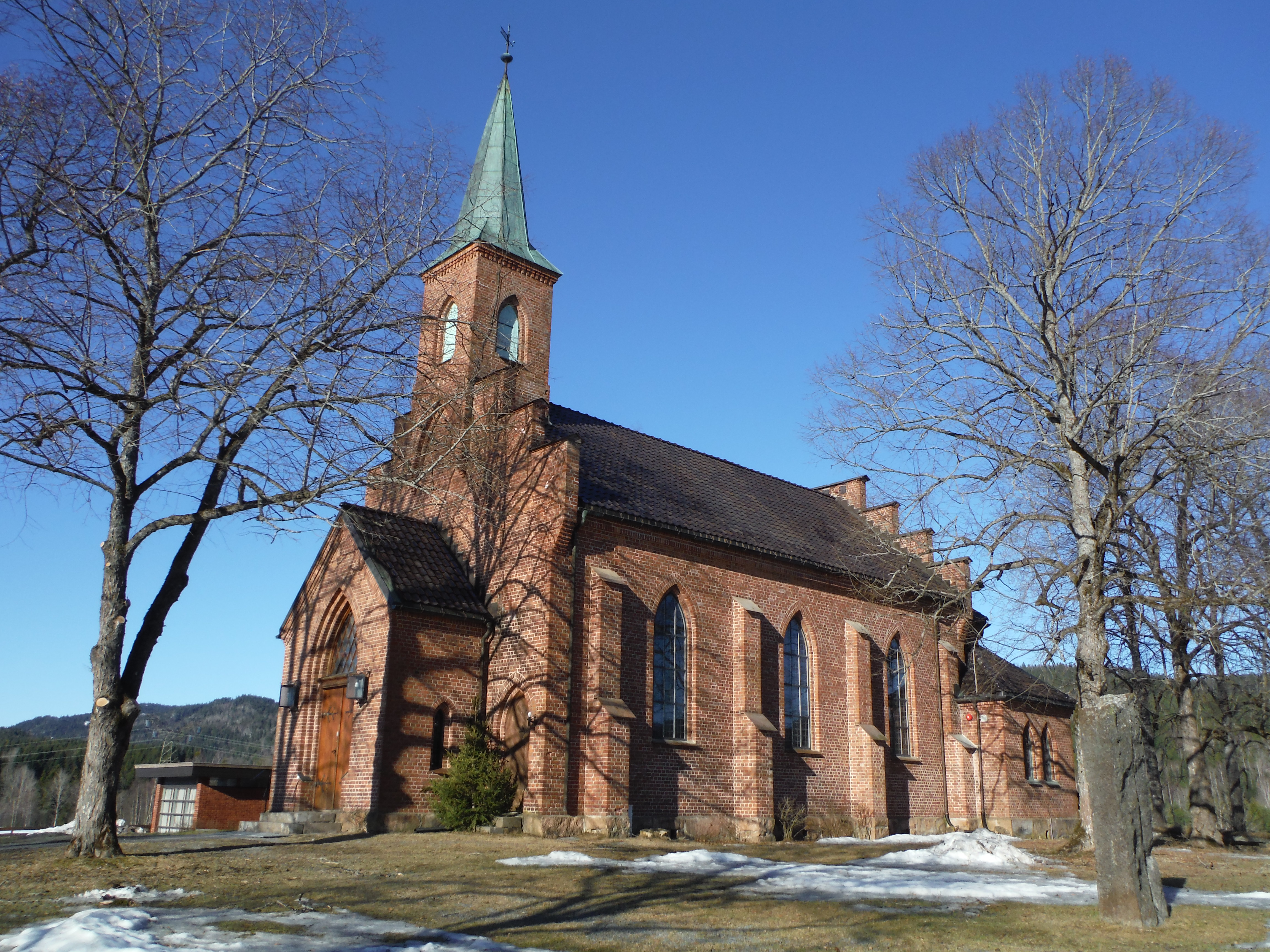 A view of Sørkedalen kirke from southwest.